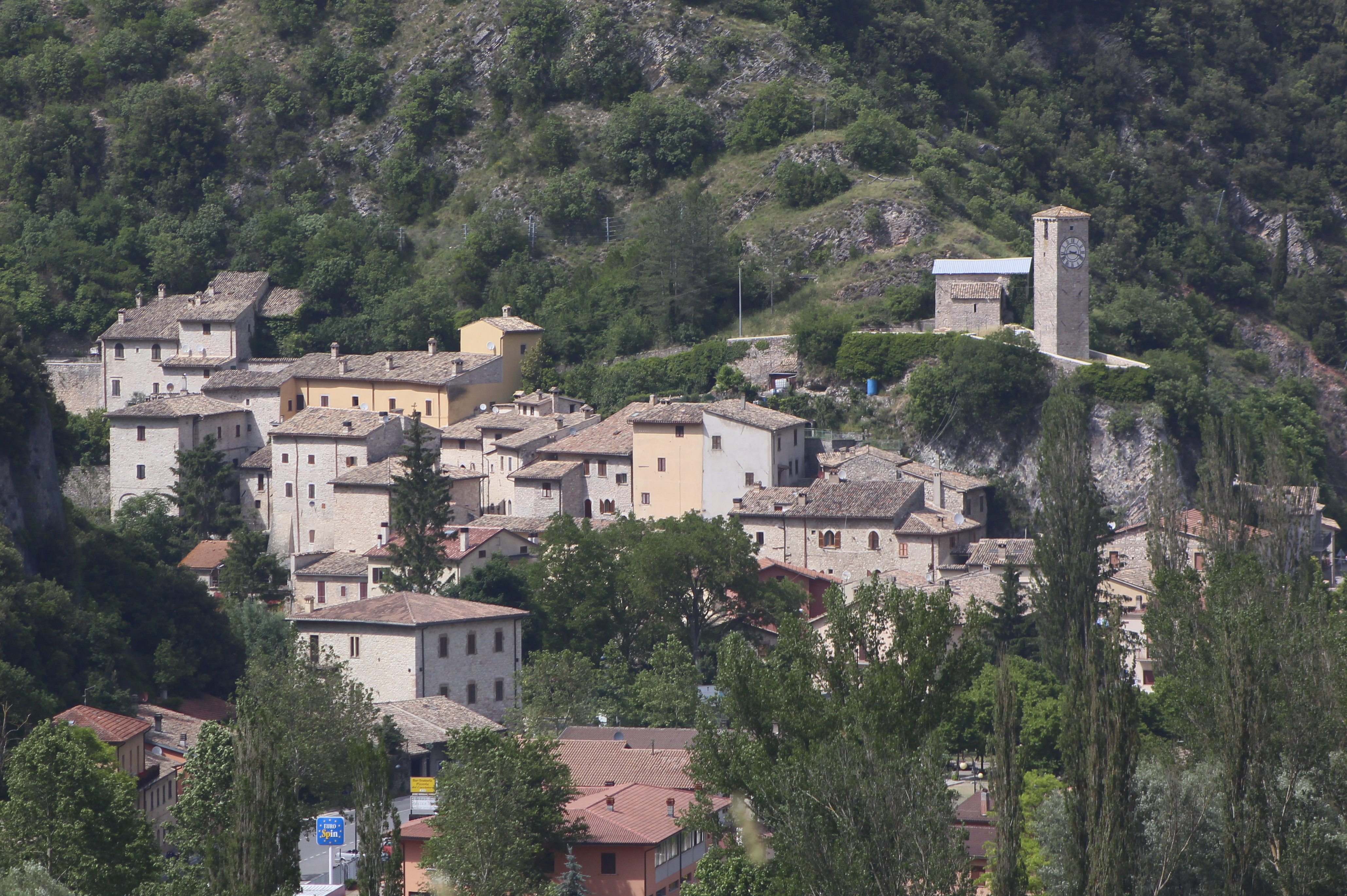 Borgo Cerreto, hamlet of Cerreto di Spoleto, Province of Perugia, Umbria, Italy